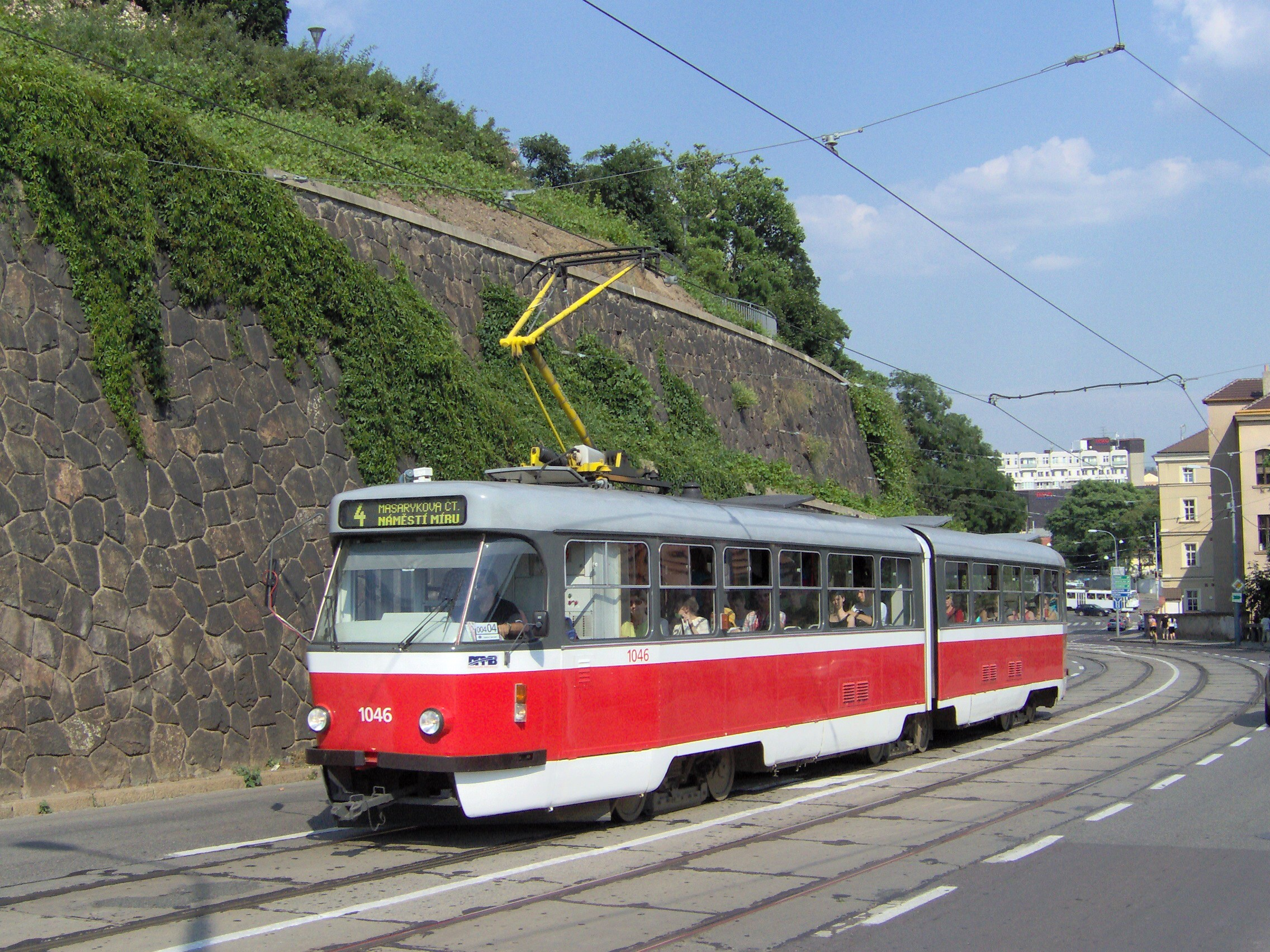 Tatra K2P tram No. 1046, Brno, Czech Republic